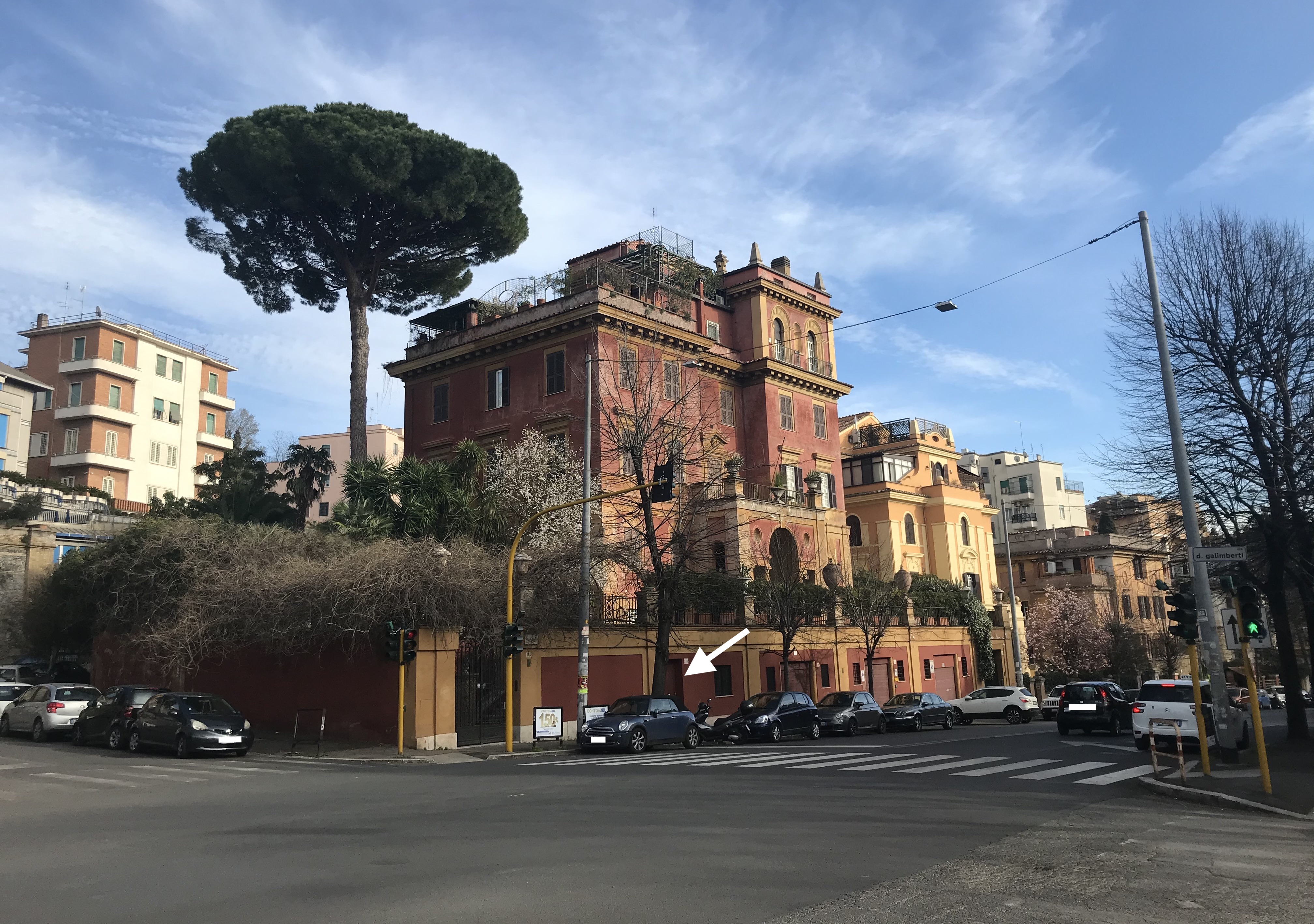 Building in Rome where a branch of the MSI italian political party was located in the 1970s (white arrow).